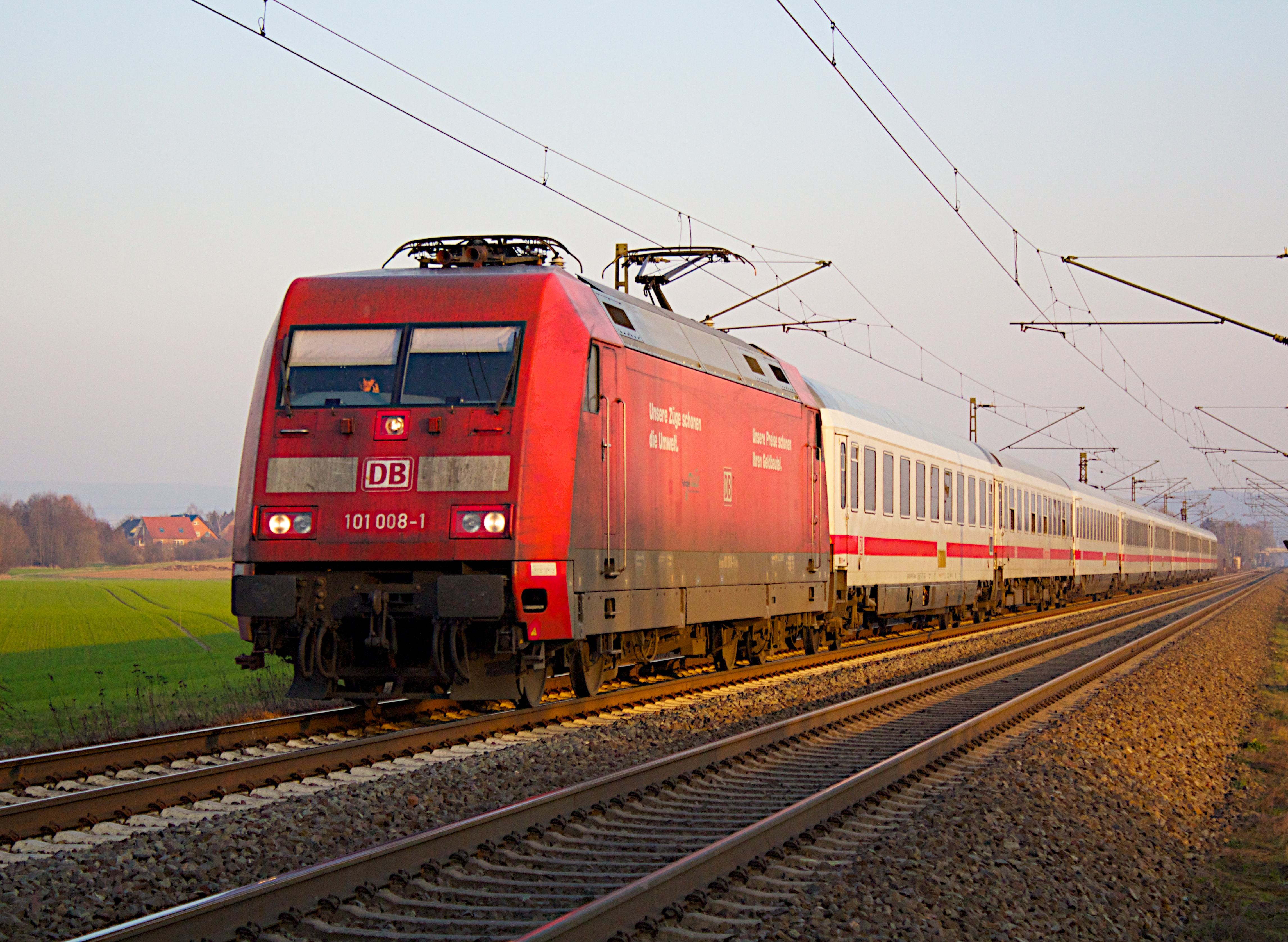 101 008-1 approaching Minden with an InterCity train.